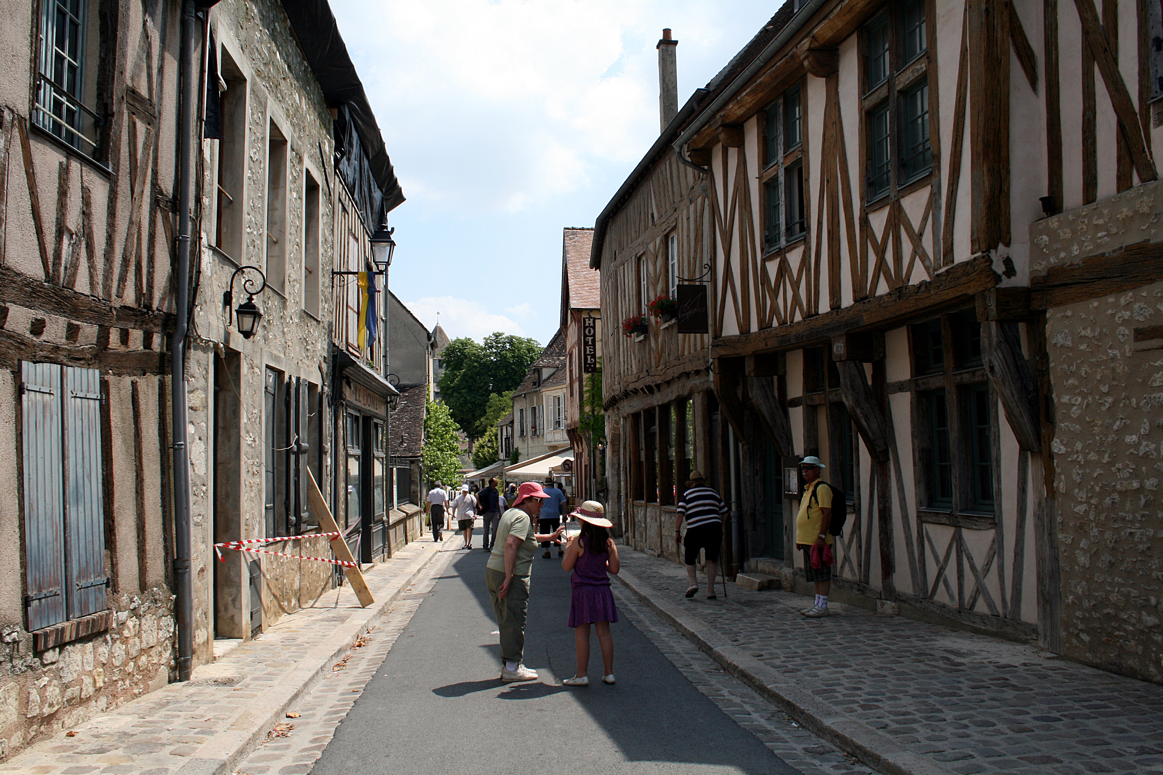 Provins (Île-de-France), the rue Couverte in the upper town.